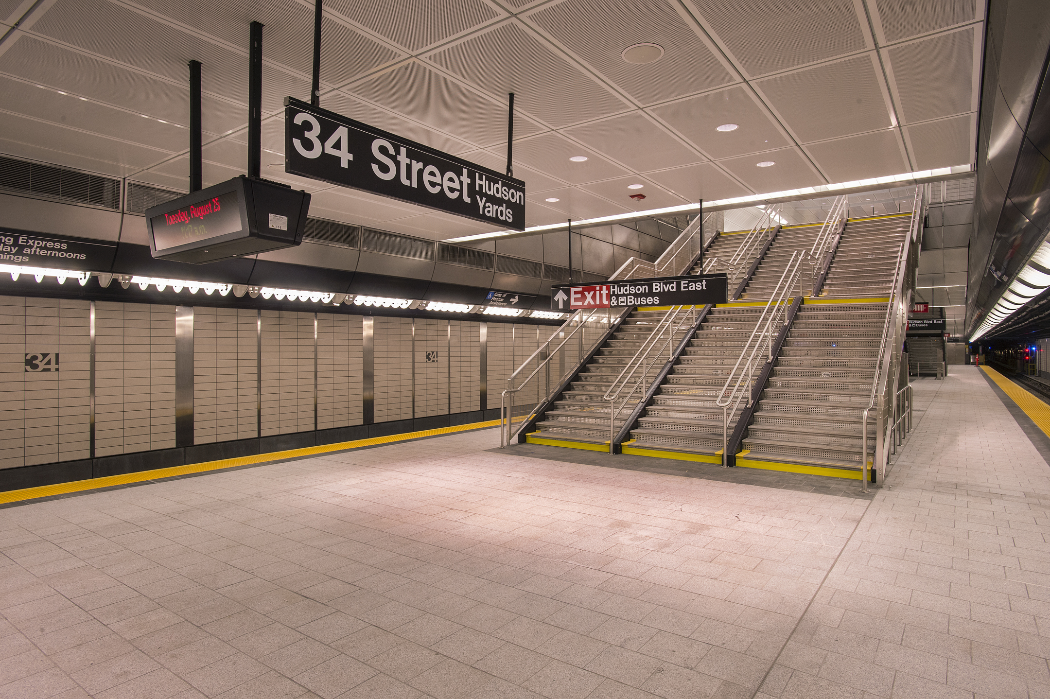 34 St-Hudson Yards Station